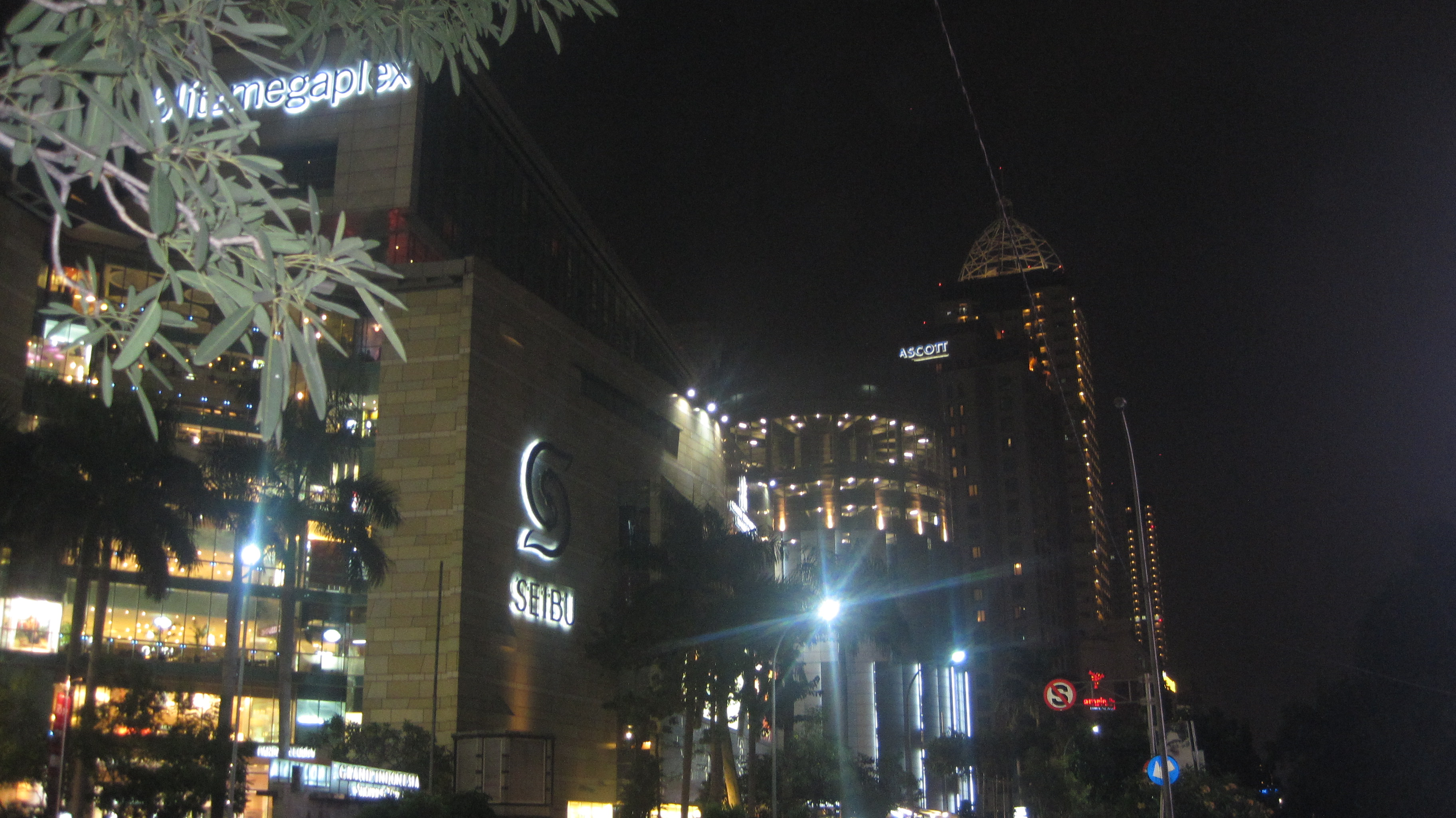 Seibu Department Stores Building at Grand Indonesia Shopping Town, Central Jakarta, Indonesia